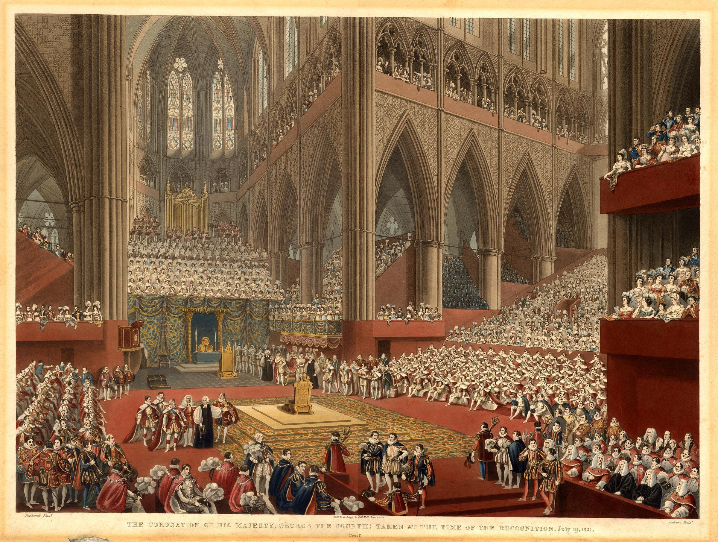 The Coronation of His Majesty, George the Fourth - Taken at the Time of the Recognition. July 19, 1821., by Matthew Dubourg (floruit 1838), published 1822. According to the NPG's website the work was published prior to 1859, and so the author is reasonably presumed dead by 1939.